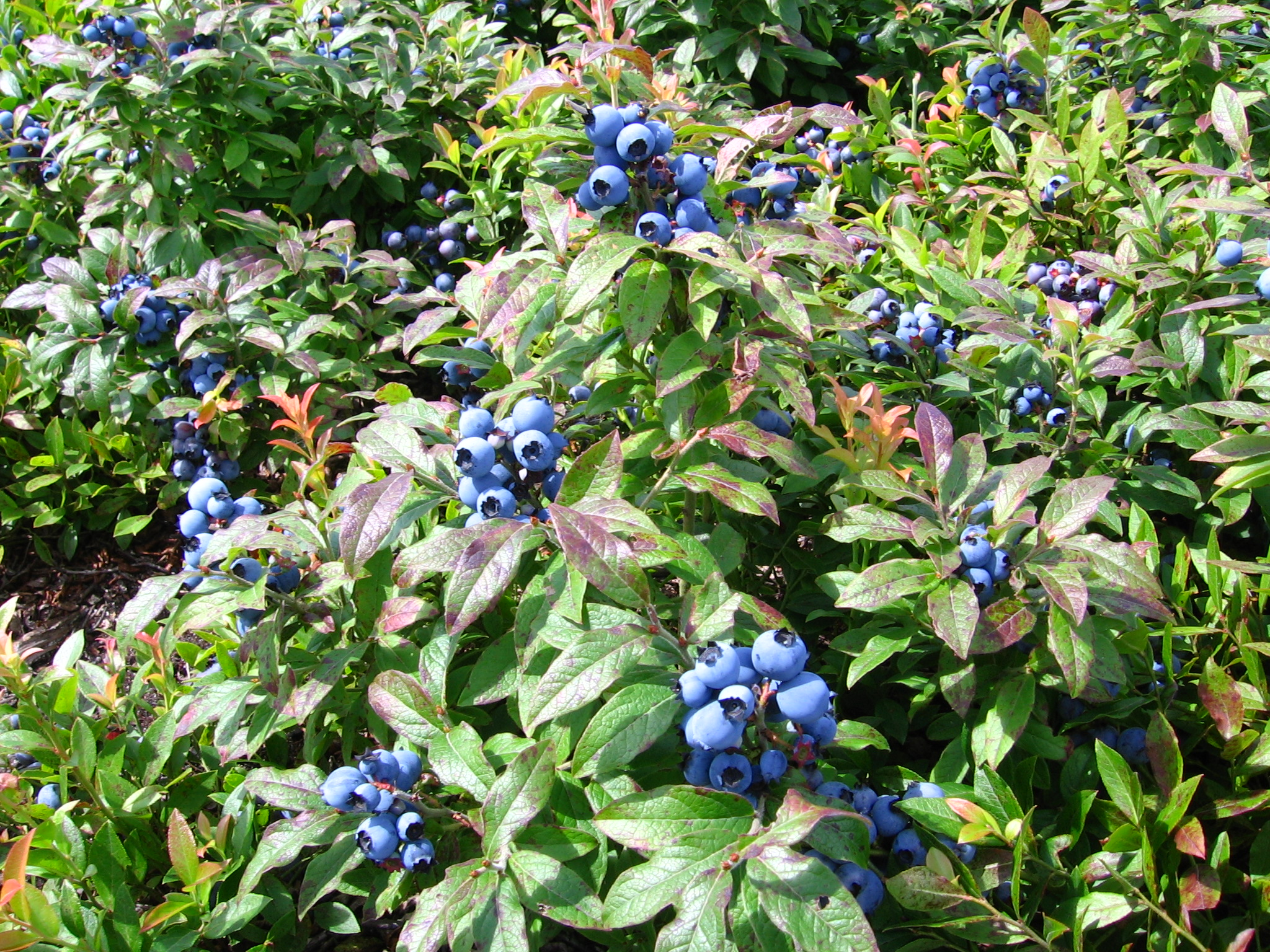 Blueberries, canadian: "Bleuets", (Vaccinium angustifolium)